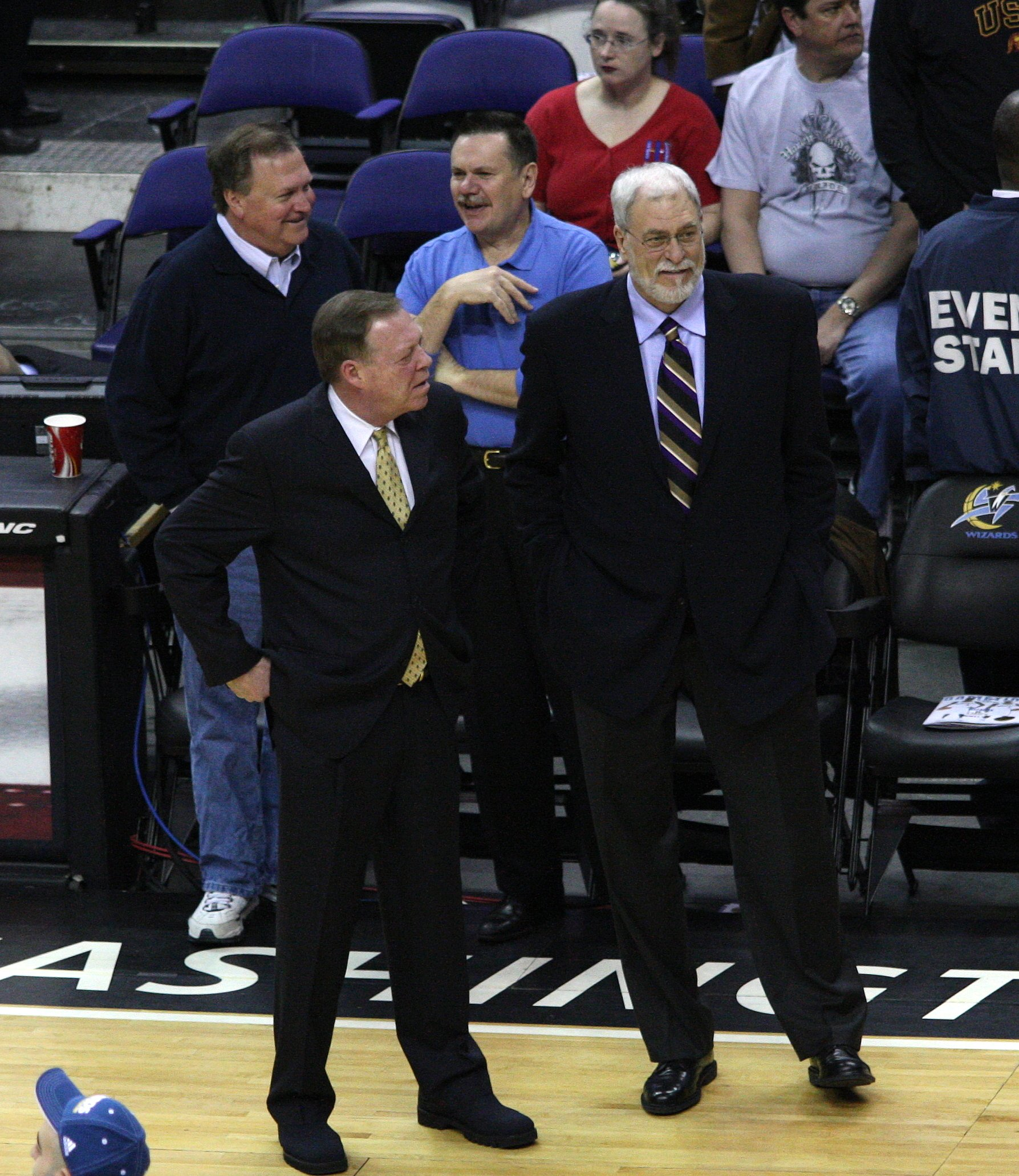 Los Angeles Lakers head coach Phil Jackson (right) talks with assistant coach Frank Hamblen.